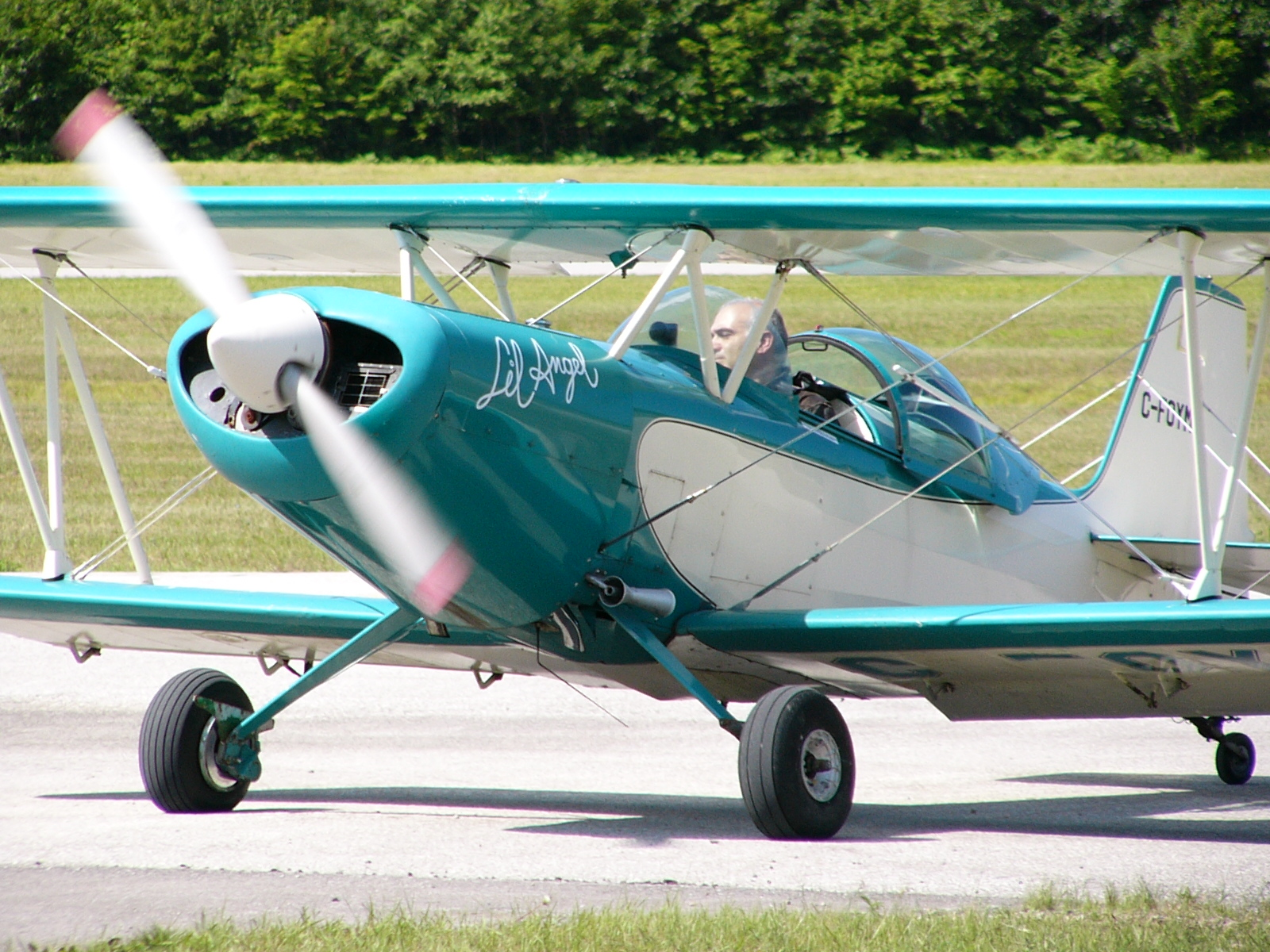 Smith Miniplane at the Midland, Ontario, Canada fly-in.